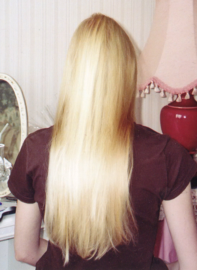 Girl with blond hair